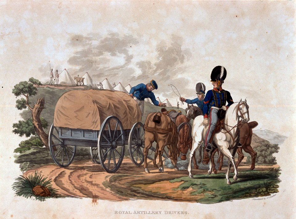 The Corps of Artillery Drivers from Charles Hamilton Smith's Costumes of the Army of the British Empire, according to the last regulations 1812 published by Colnaghi and Company, 1812-1815.